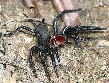 female Macrothele gigas from Okinawa.